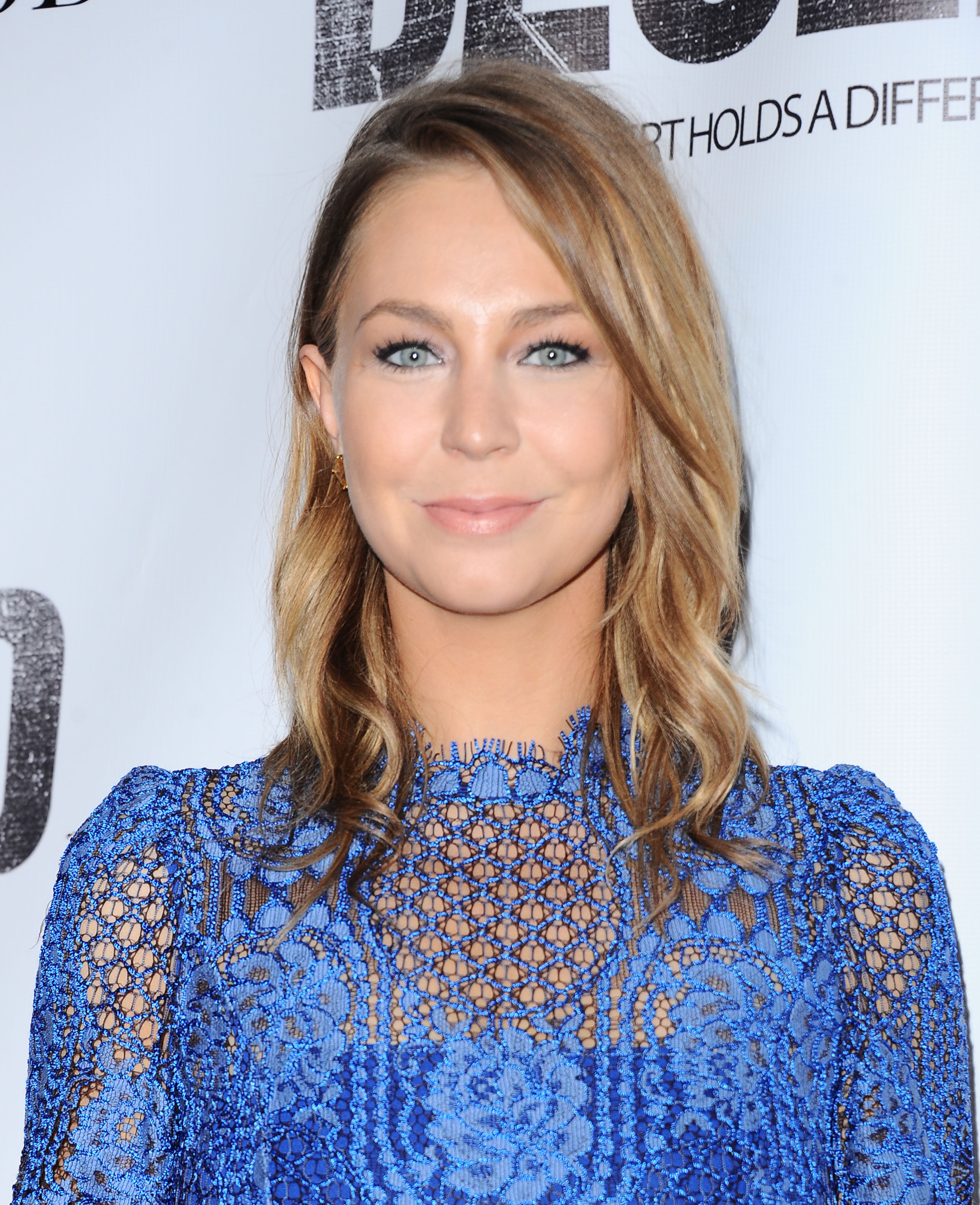 Dana Rosendorff at the Los Angeles Premiere of "Deserted"